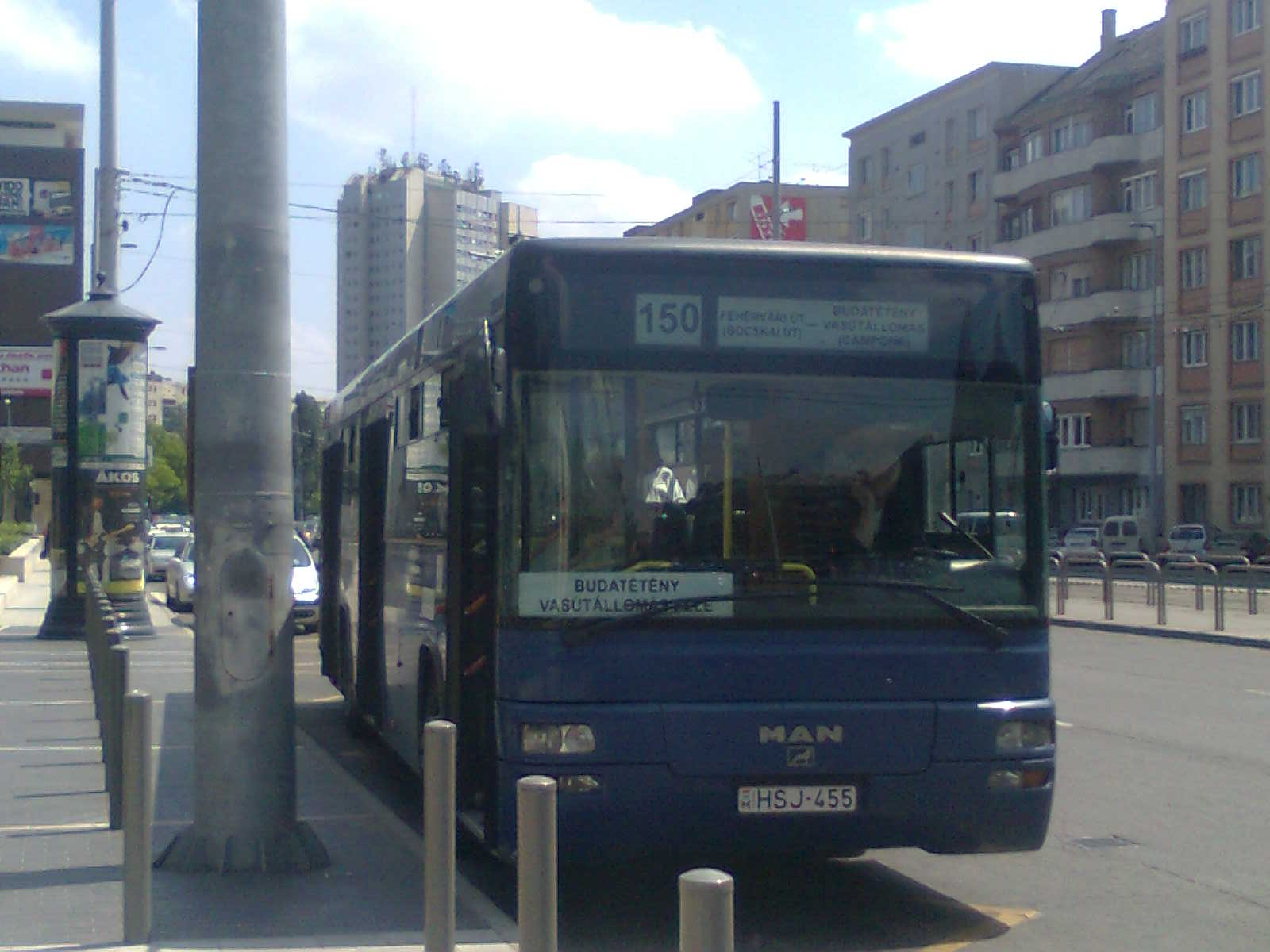 150 bus